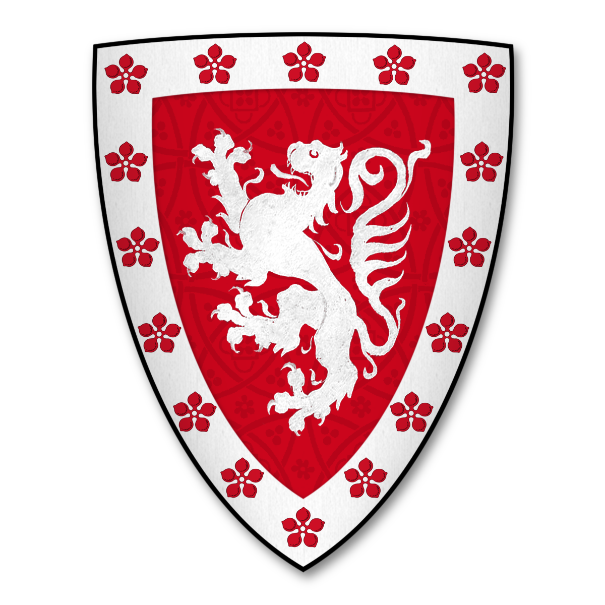 Coat of arms of Patrick de Dunbar, Earl of Dunbar, as blazoned in the Caerlaverock Poem (K-051: "Conte de Laönois") "Rouge o un blanc lÿoun conois E blanche en estoit le ourleüre A roses de l'enchampeüre." Arms: Gules, a lion rampant within a bordure argent semy of cinquefoils of the first.